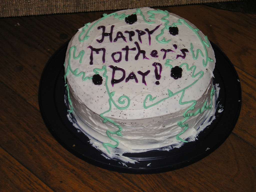 I decided to bake a cake for my mother-in-law for mother's day, and for my wife too, of course. I would bake my own mother a cake, lest anyone berate me too soon, but she is on the East coast, and I am on the West. I call this cake, my 'Black Rasberry Surprise'. There's a filling between the two layers made of black raspberry preserves, and the same preserves baked into the cake. The surprise part is that it's a chocolate cake under the white icing. Happy Mother's Day everyone!...especially my mom. Hi mom!